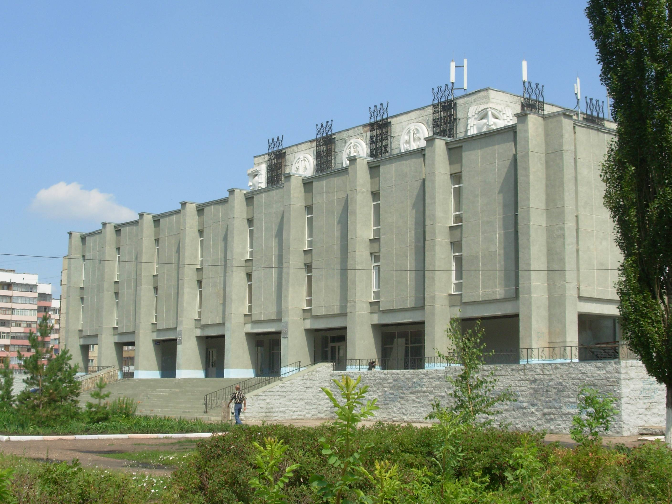 musik school 3 Salavat Russia